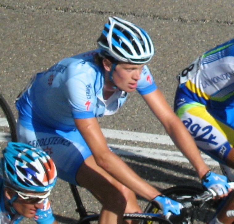 Tom Stamsnijder, 2008 Vuelta a España, 8th stage, Port de la Bonaigua, Spain.